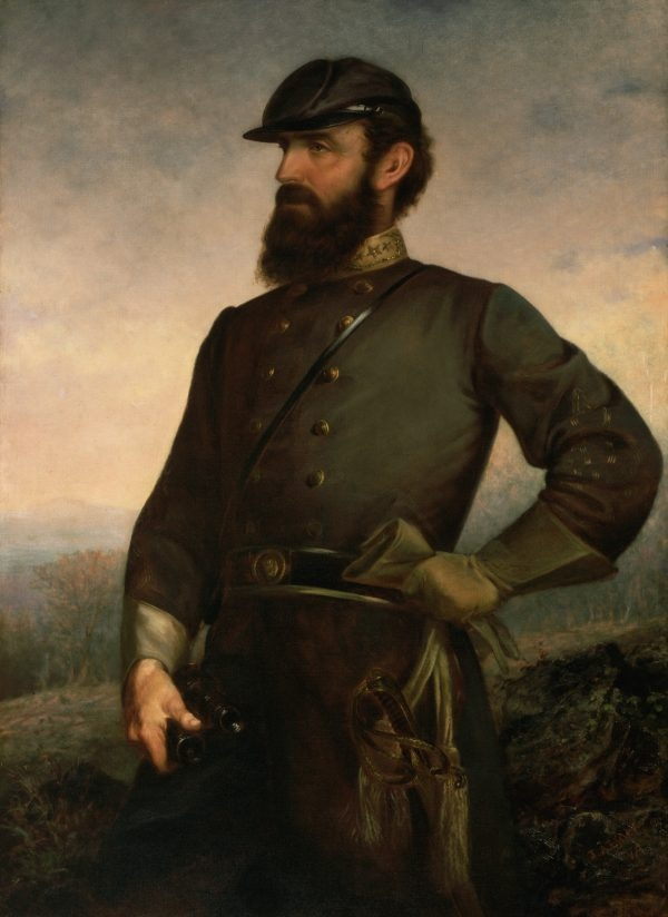 Portrait painting of Stonewall Jackson by John Adams Elder, oil on canvass.